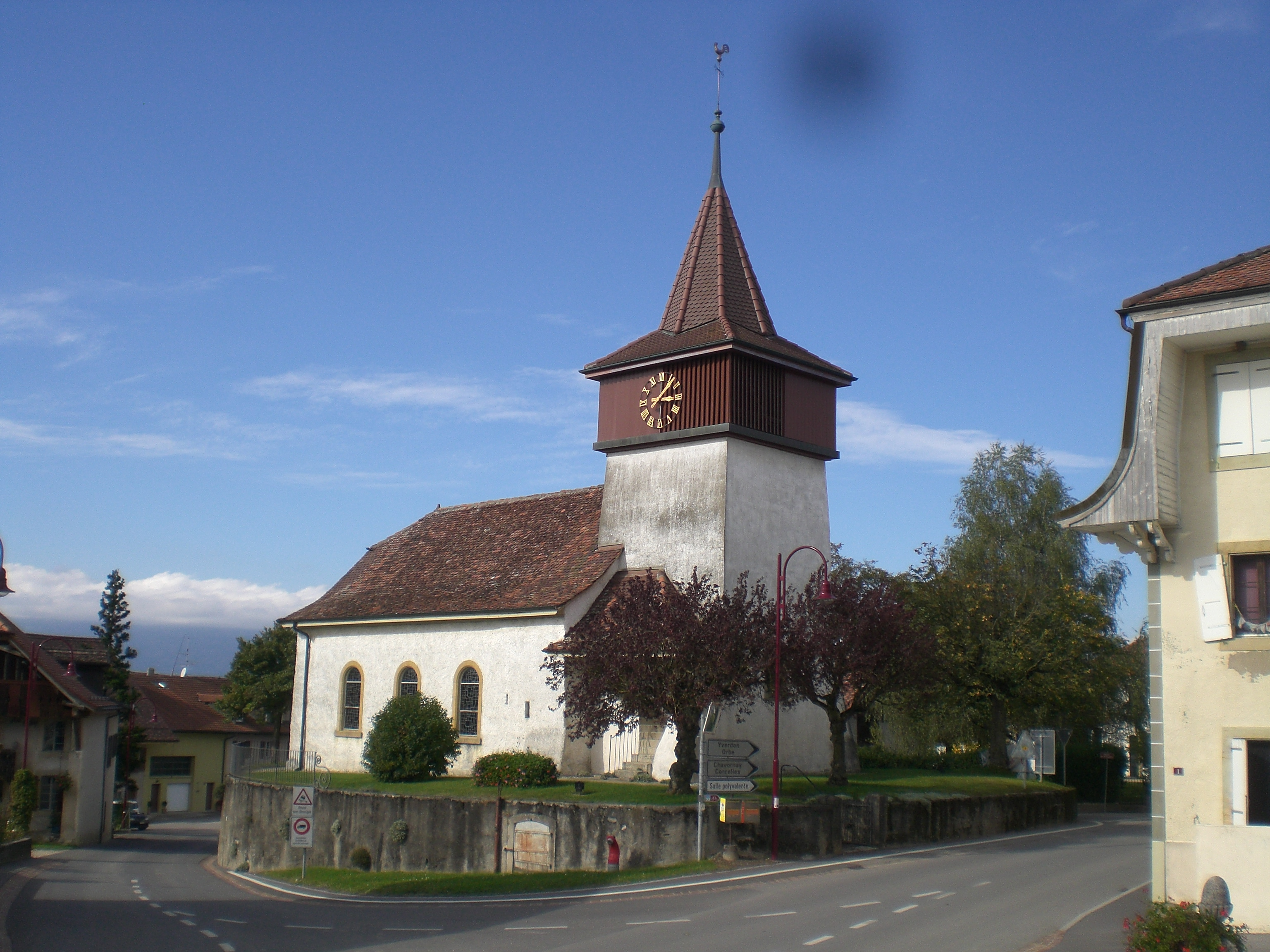 Church of Penthéréaz, canton of Vaud, Switzerland